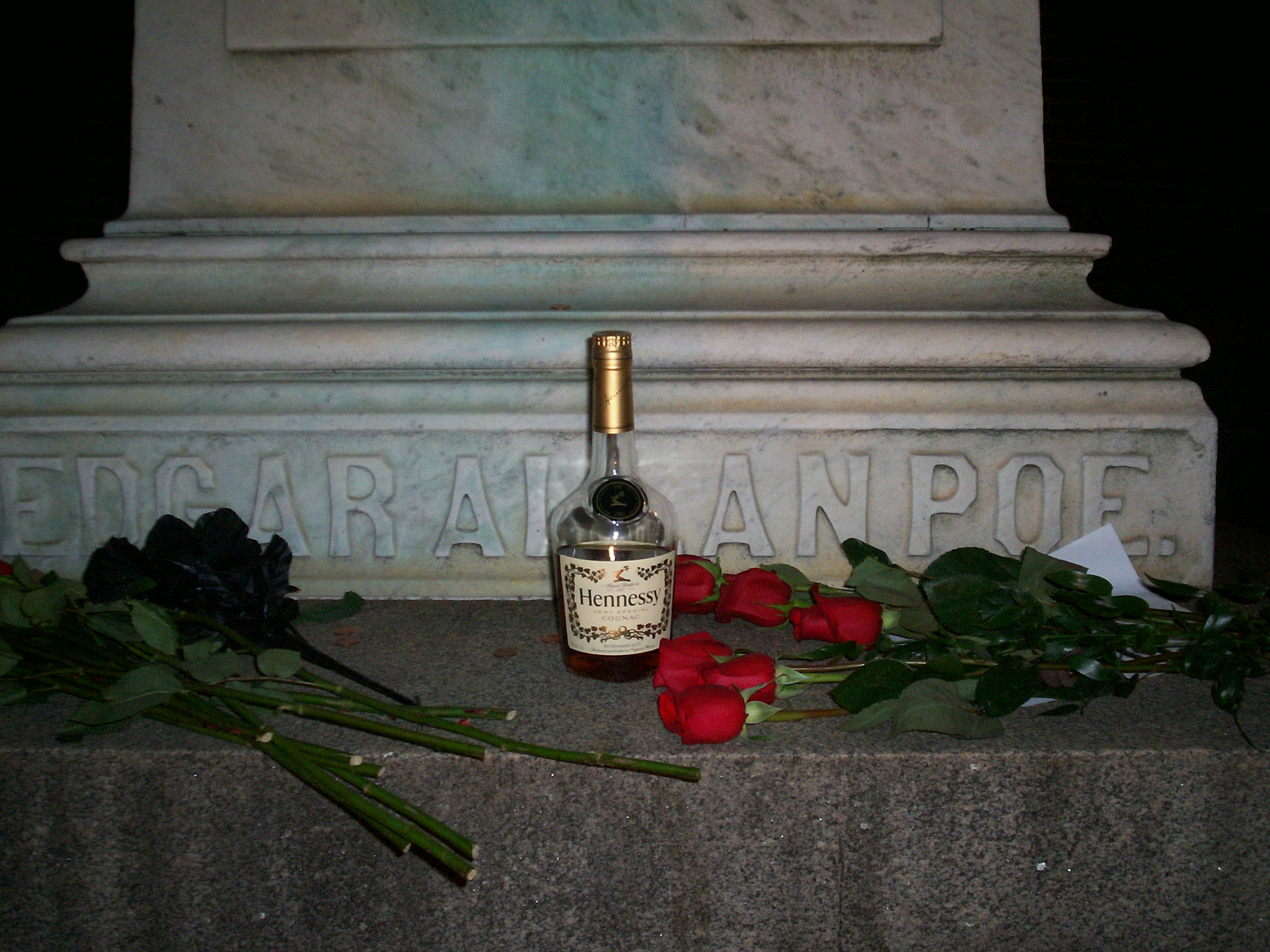 Half-full bottle of Cognac left at Edgar Alan Poe's grave, January 19, 2008... is it from the Poe Toaster? Probably not... as I understand it, the true Poe Toaster leaves his tribute at Poe's original grave. This image is of the newer 1875 memorial and, therefore, this bottle was likely left by an imitator.